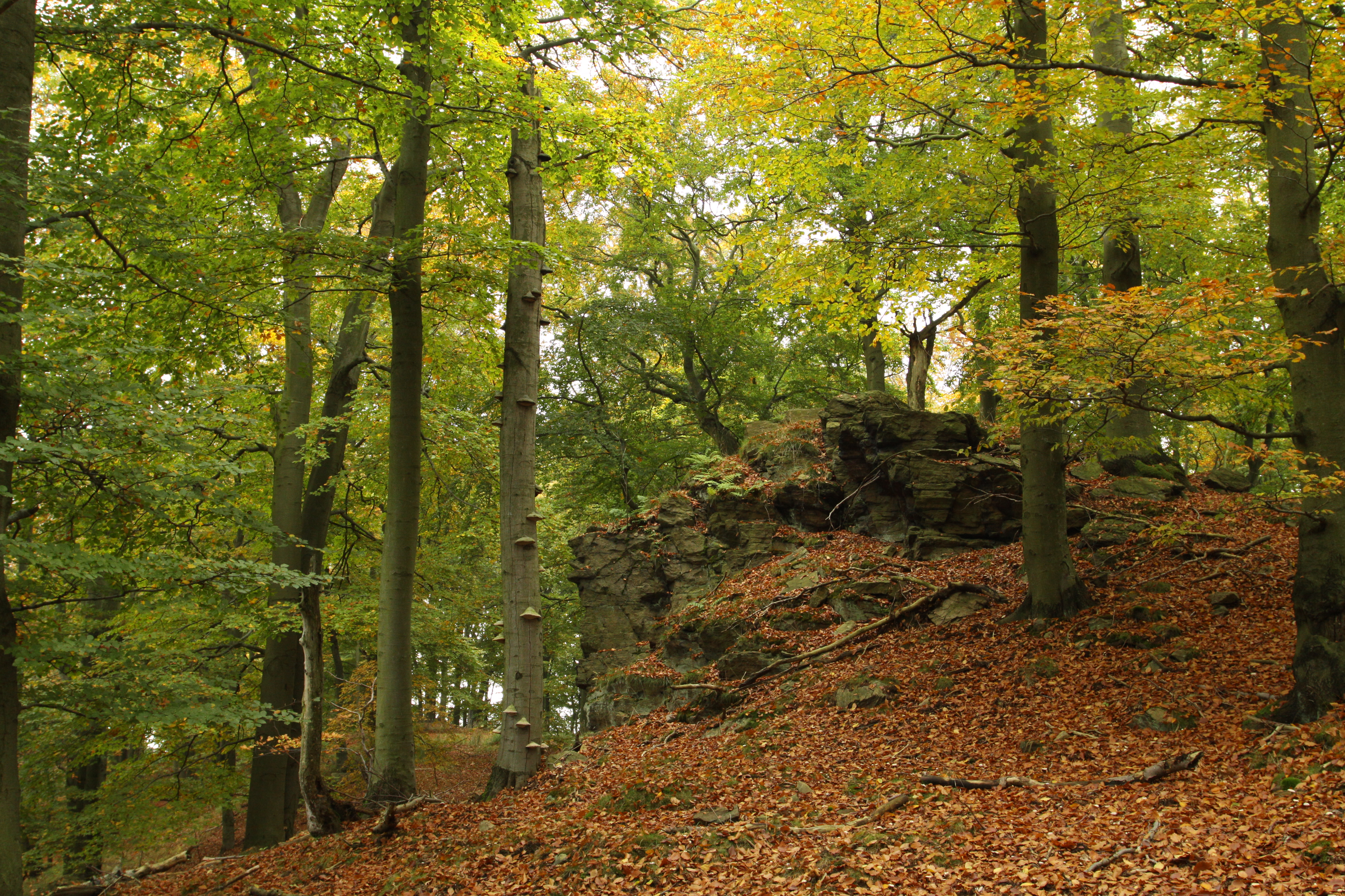 Nature reserve Vlčí důl near Osek village in Teplice District, Czech Republic - Google Maps - Google Earth